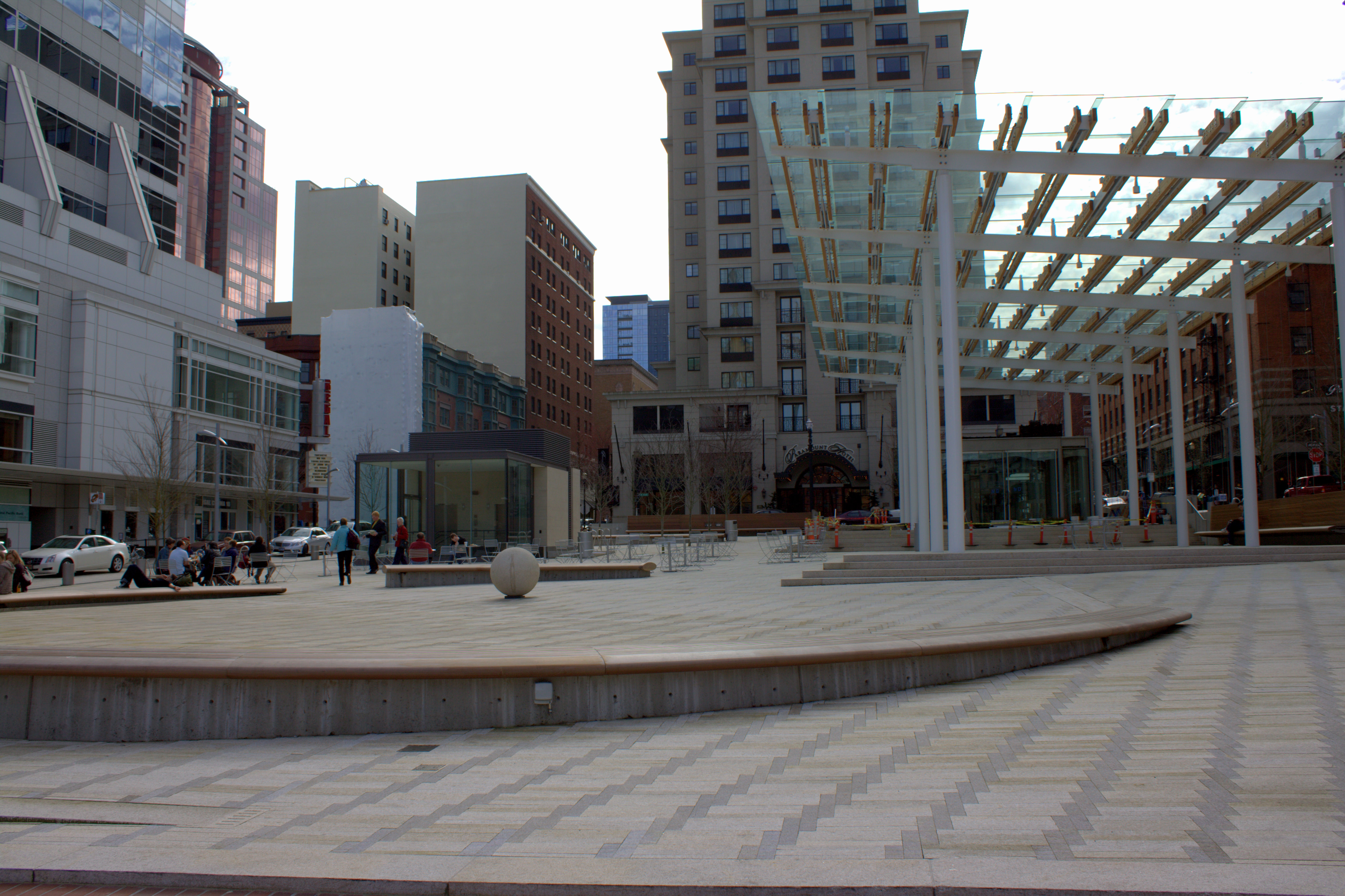 Director Park in Portland, Oregon. Paramount Hotel is in background, Fox Tower is on left.